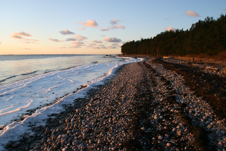 Coast of Aegna, Estonia in January.